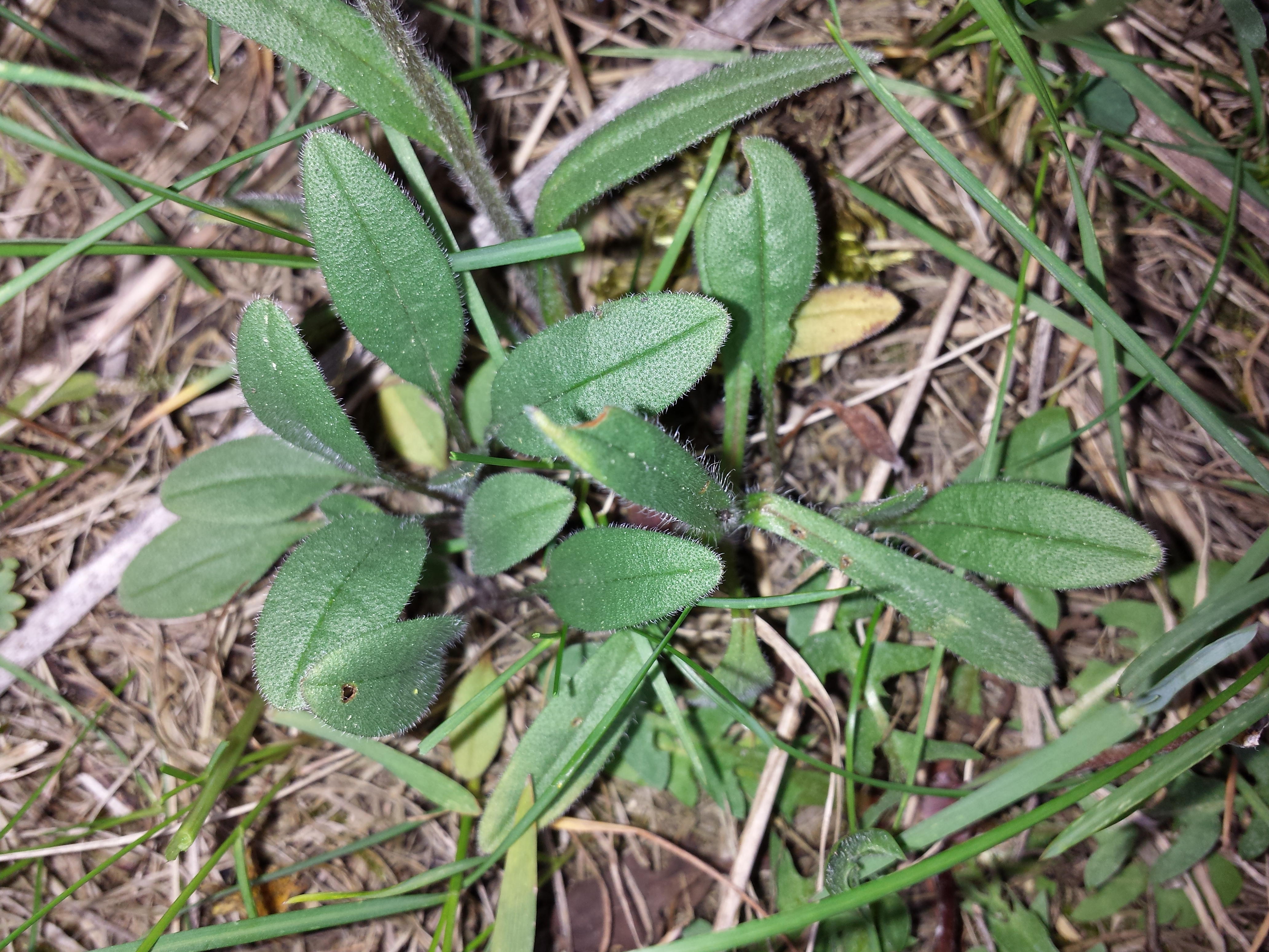 Ground leaves Taxonym: Myosotis stenophylla ss Fischer et al. EfÖLS 2008 ISBN 978-3-85474-187-9 Location: Kočičí skála near Mikulov, Jihomoravský kraj, Czech Republic - ca. 350 m a.s.l. Habitat: dry grassland on Limestone